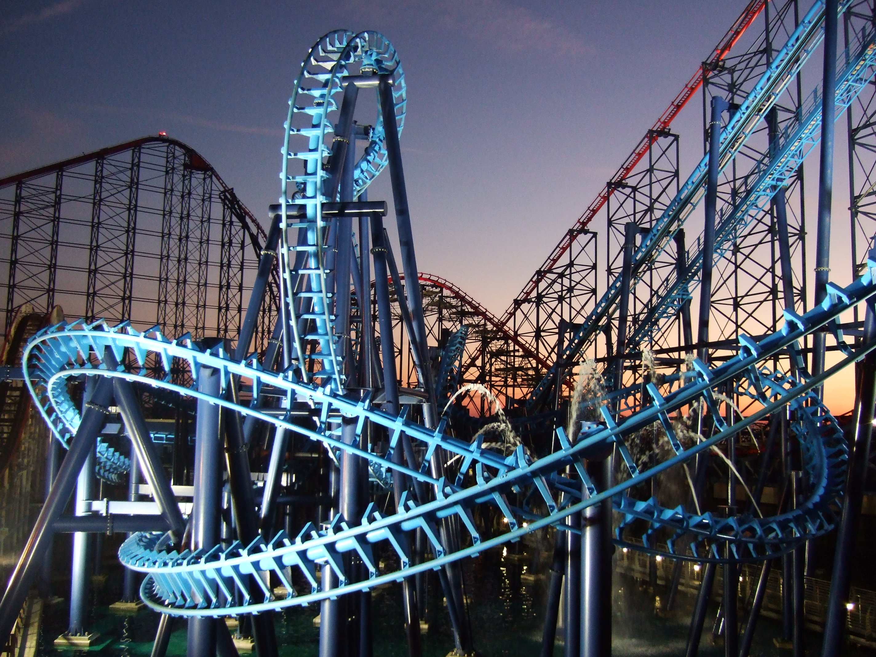 Infusion (Pleasure Beach, Blackpool)